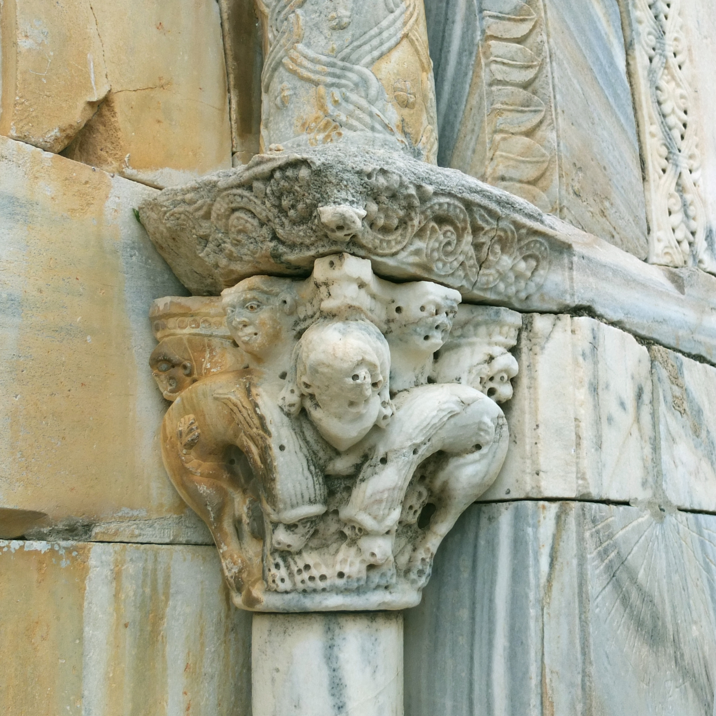 Portal of Église Sainte-Marie de Brouilla, right capital Ministère de la Culture (France): Base Mémoire: AP44L05200